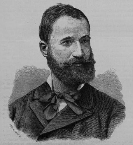 Portrait of Albert Bedő